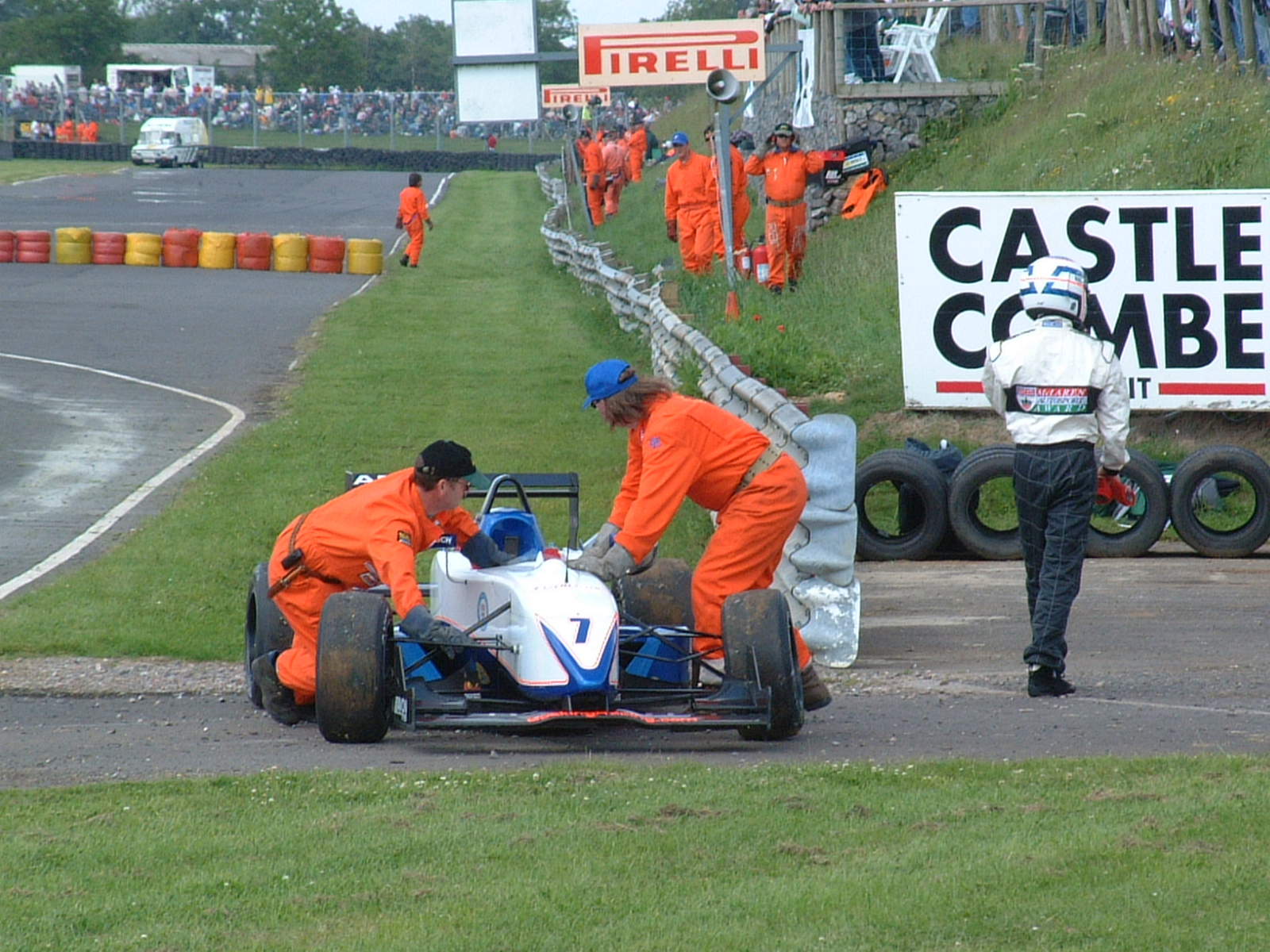 The British F3 championship - Robbie Kerr after he crashed out.